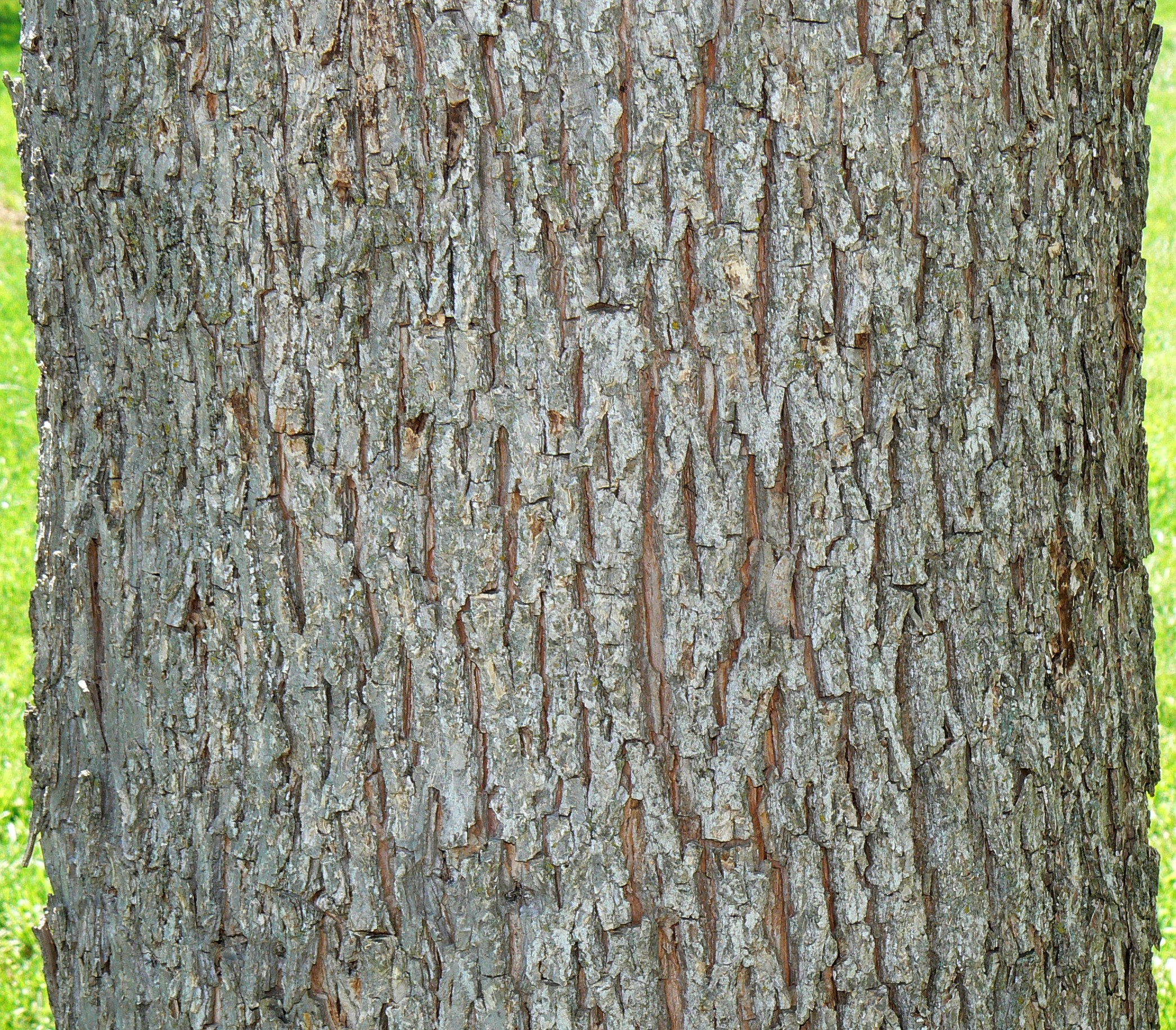 Pecan (Carya illinoinensis) bark at Arbor Lodge, Nebraska City, Nebraska, USA